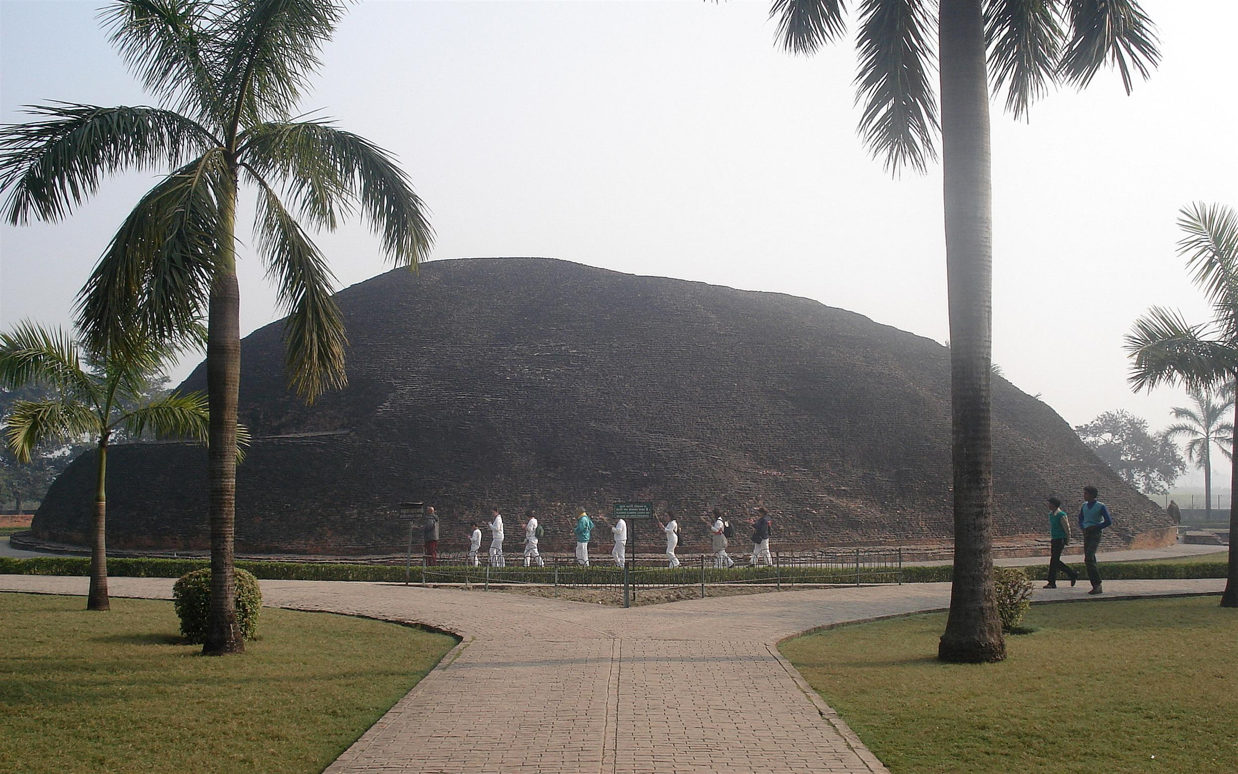 Ramabhar Stupa (or Rambhar Stupa, Adhana Stupa), in Kushinara (Kushinagar), Uttar Pradesh, India. It was built over a portion of the Buddha's ashes, by the ancient Malla people (the Malla tribe). It is erected on the spot where the Buddha was cremated.